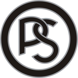 Logo of Potsdamer Sportfreunde, predecessor of SpVgg Potsdam, German football team